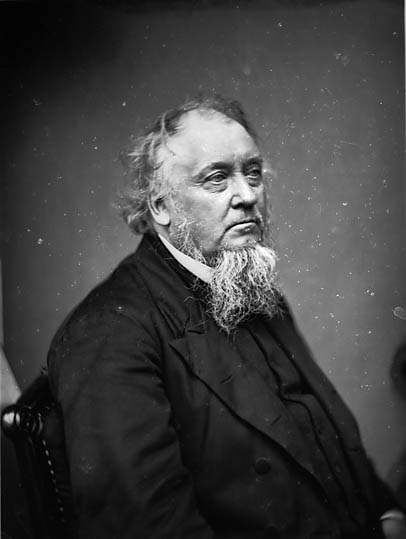 1 negative : glass, wet collodion, b&w ; 21.5 x 16.5 cm.